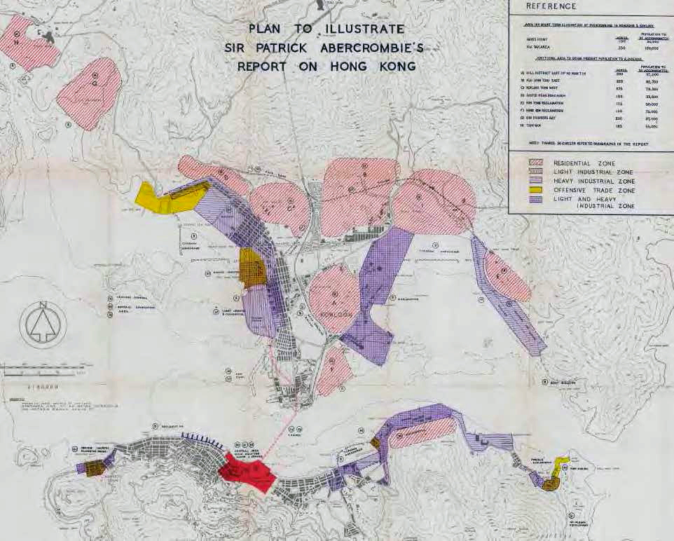 The development map of the Abercrombie Report, published in 1948.